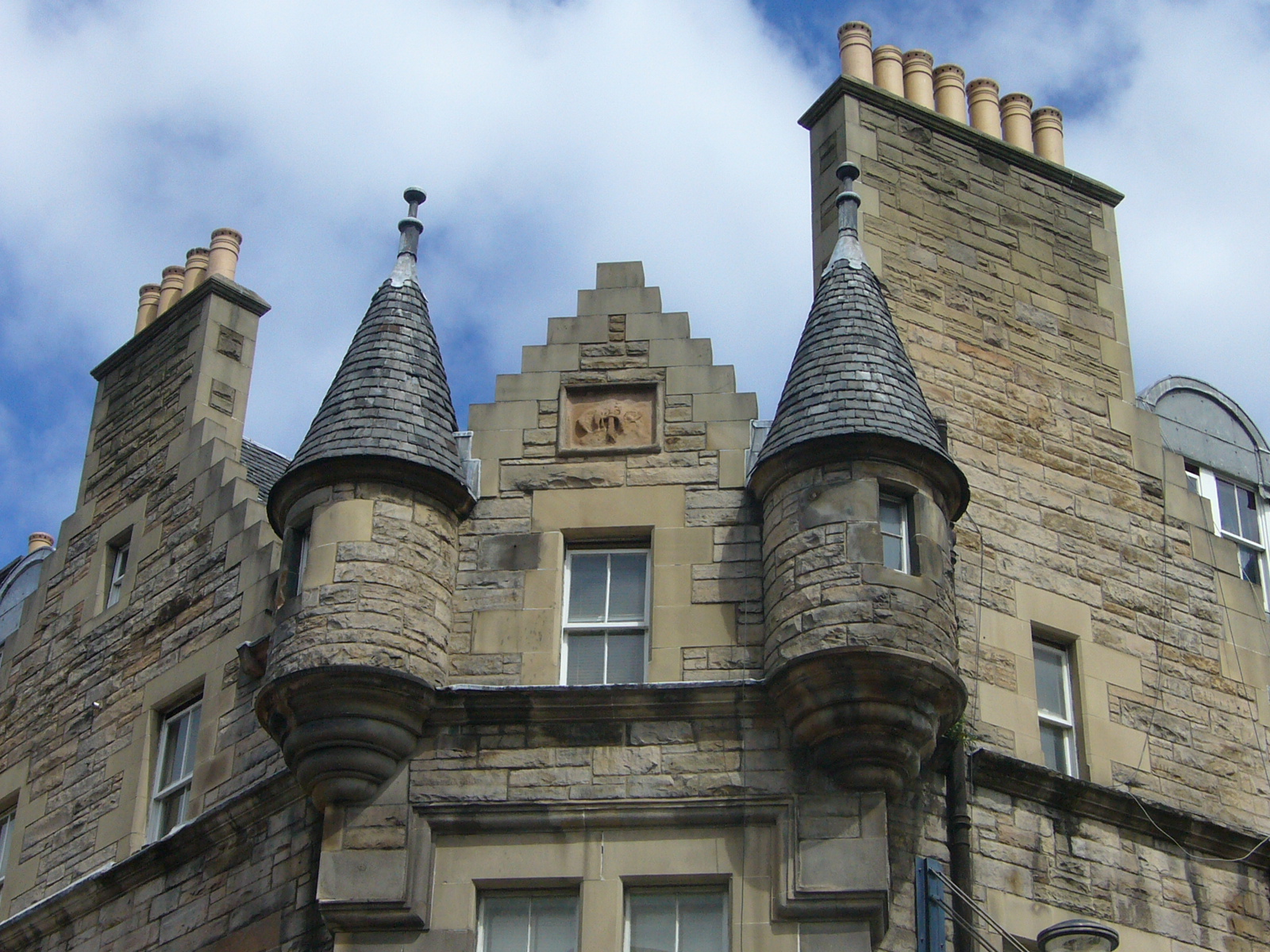 Victorian Scottish baronial-style tenement turrets, St. Mary's Street, Edinburgh. The building dates from shortly after the Edinburgh Improvement Act of 1867.